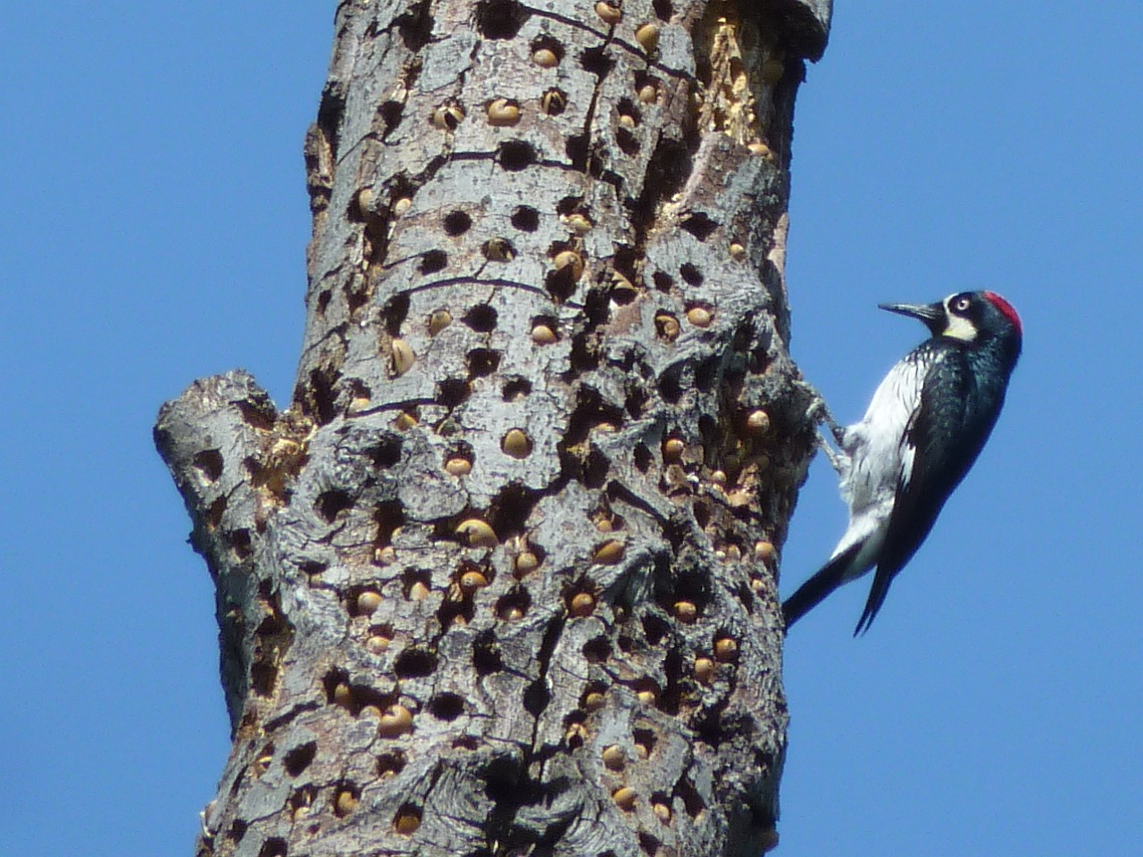 Woodpecker on a nut-filled dead tree